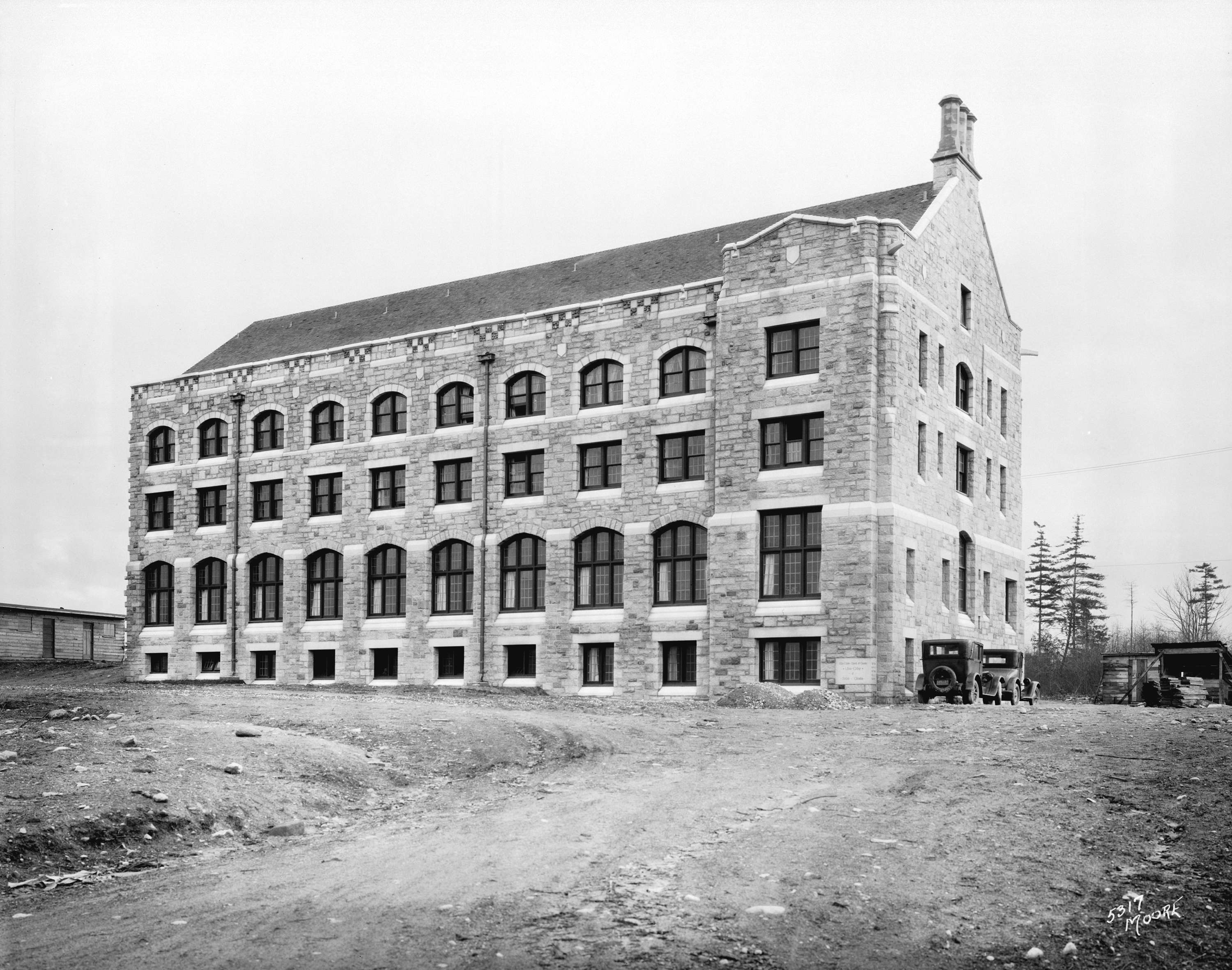 Vancouver School of Theology - Iona Building as it appeared in 1928. Original caption: United Church of Canada, Union College of British Columbia